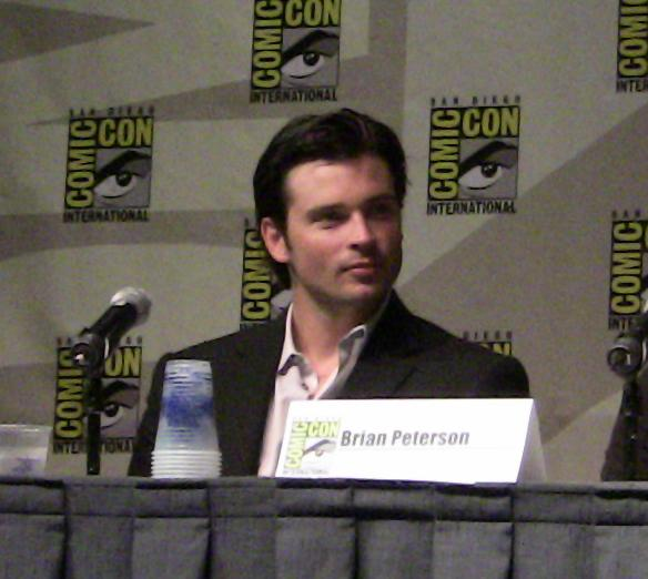 Actor Tom Welling – Comic-Con 2009 - Smallville - San Diego, Calif. - July 26, 2009.